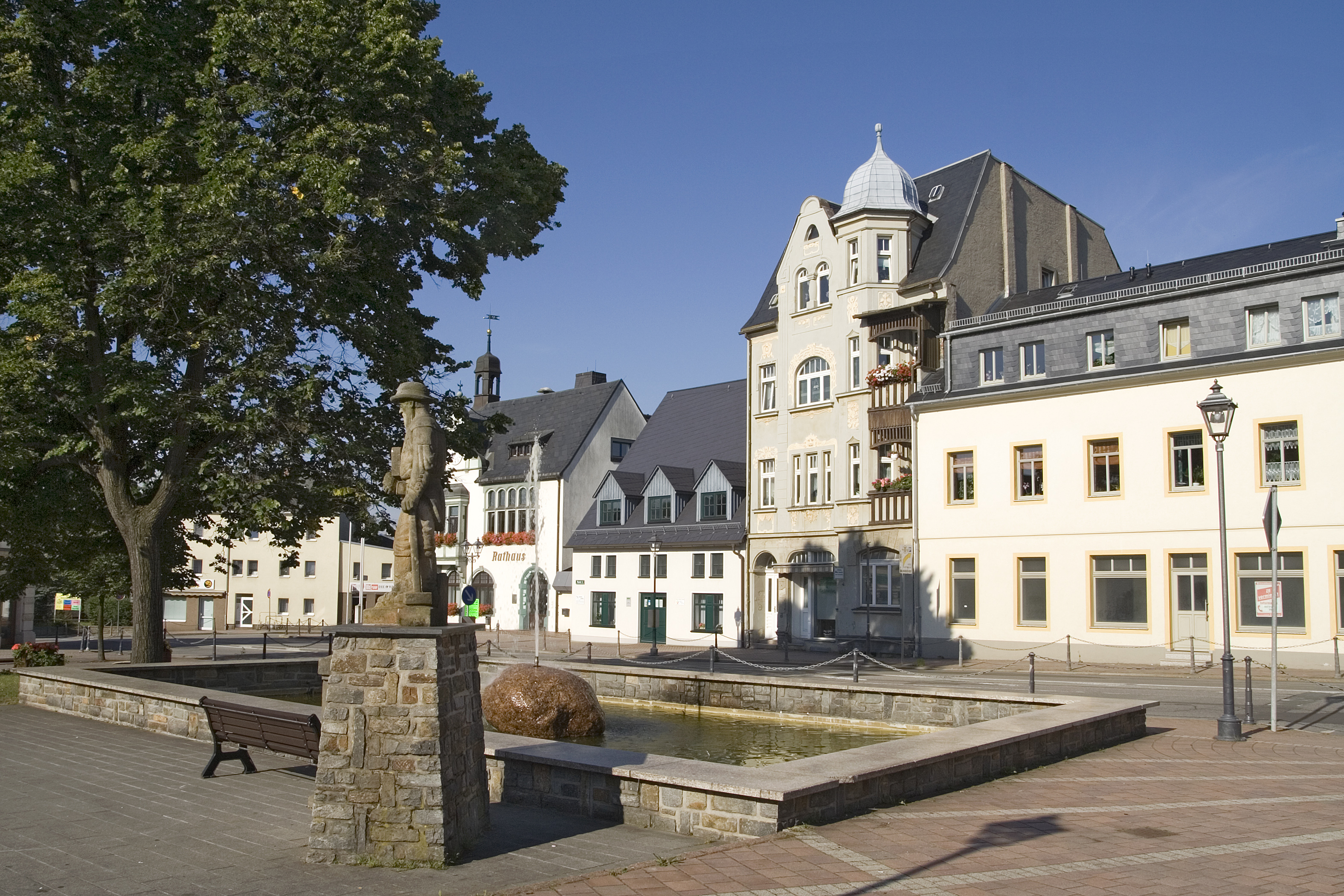 Brand-Erbisdorf, Saxony, centre